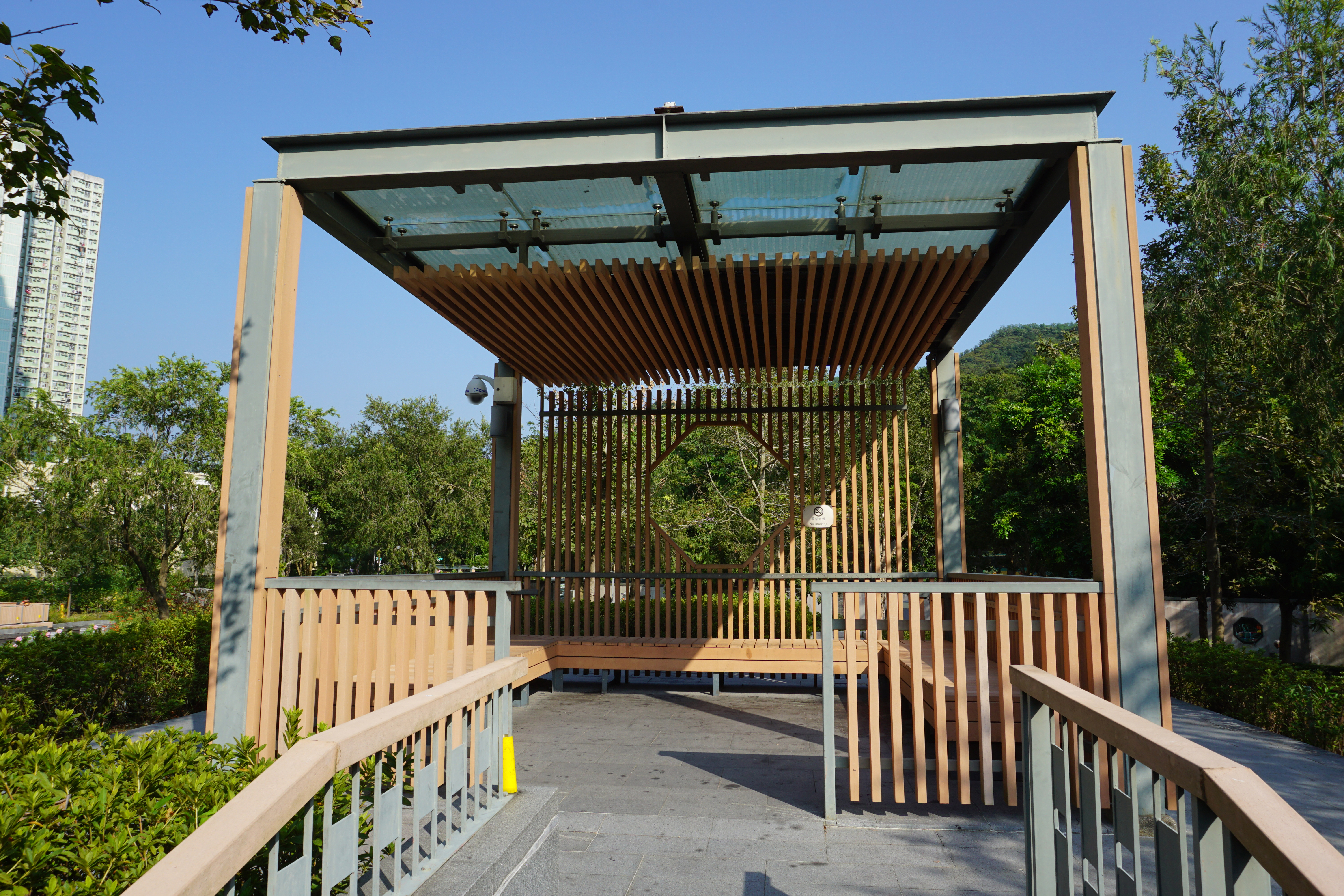 Man Kuk Lane Park in Hang Hau, Hong Kong.